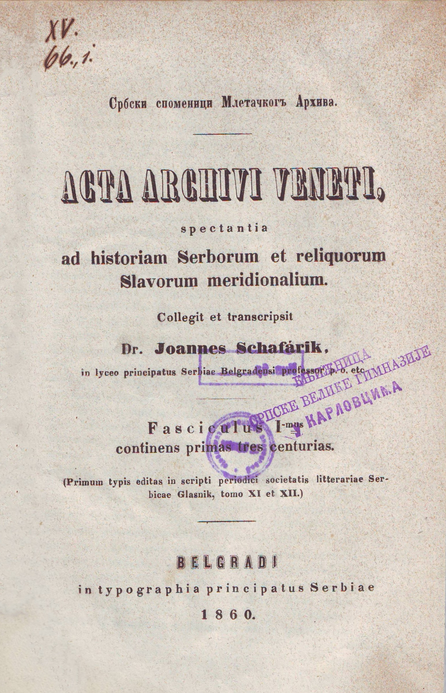 Cover of Acta archivi Veneti I (1860) by Janko Šafarik. Srpski (latinica): Naslovna strana zbirke dokumenata iz Mletačkog arhiva Acta archivi Veneti I (1860) Janka Šafarika.